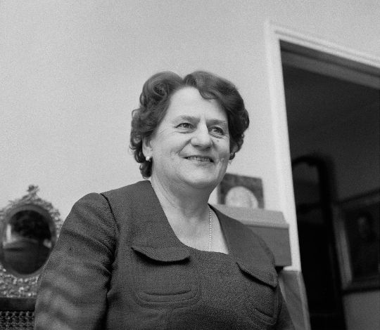 Photograph of the Finnish actor Glory Leppänen (1901–1979) at her home in Helsinki.